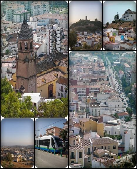 Velez-Malaga Collage.